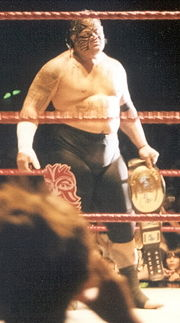 The Samoan Bulldozer Umaga